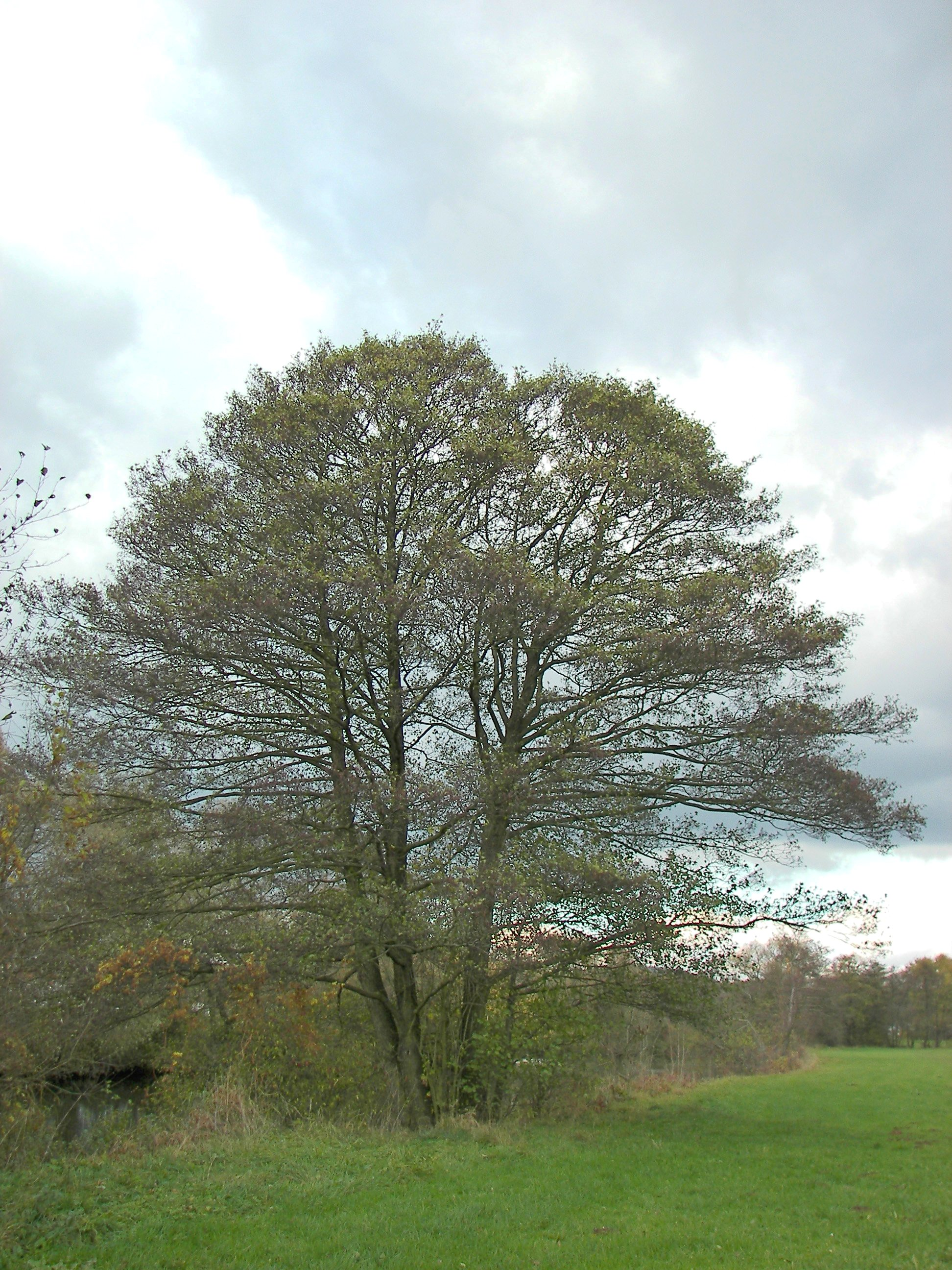 Black alder tree in Marburg, Germany.